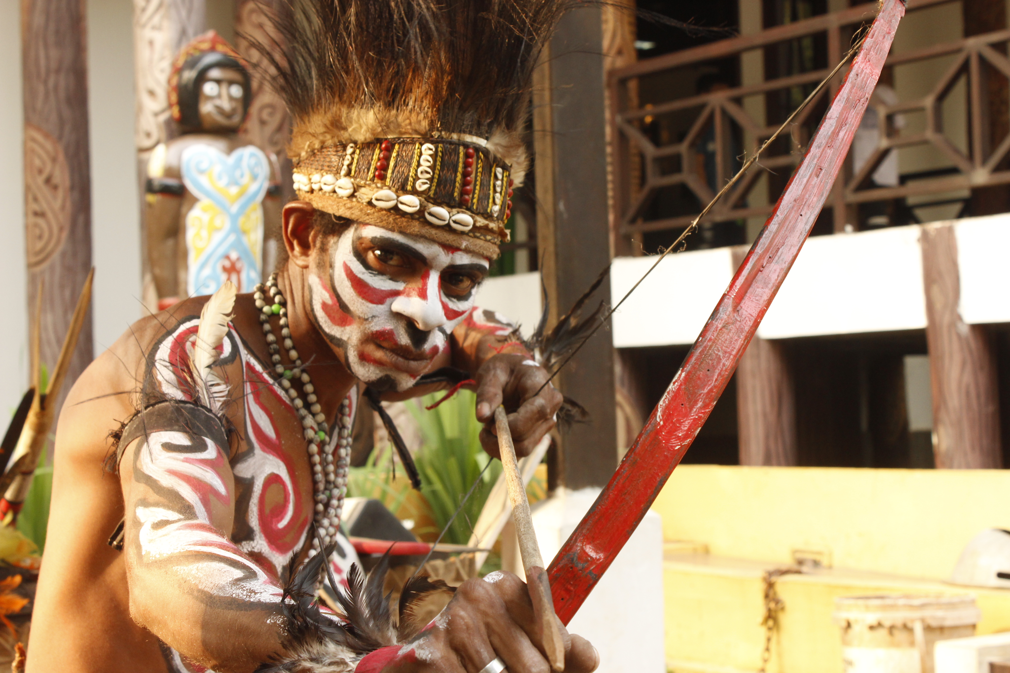 Indonesia is a country that has many islands, tribes, languages, customs, religions and others. So that with so many differences can make Indonesia a unitary state. This reflects that Indonesia is a country that is very rich in culture, nature and its contents. Papua. Papua is an archipelago located in eastern Indonesia. have a typical clothing called Koteka or Holim clothes that are usually used for men. As already known, this koteka has been very well known in Indonesian society as a traditional Papuan outfit and as a genital covering. This holim outfit can be used for any activity in everyday life.